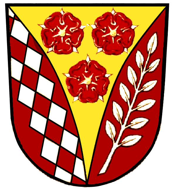 Coat of Arms of Eußenheim